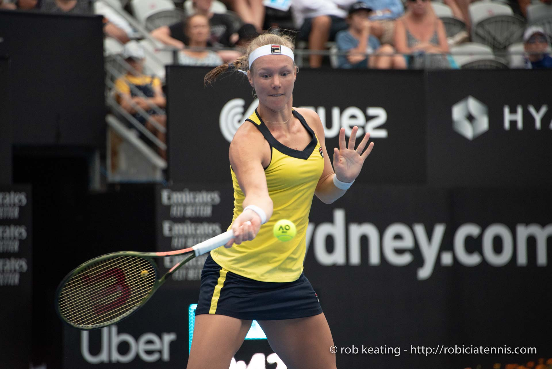 Sydney, Australia - 11 January 2019: Kiki Bertens during the Sydney International singles semifinal match against Ashleigh Barty on Ken Rosewall Arena at Sydney Olympic Park. (Photo by Rob Keating/robiciatennis.com)